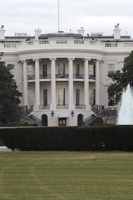 The White House from the ellipse